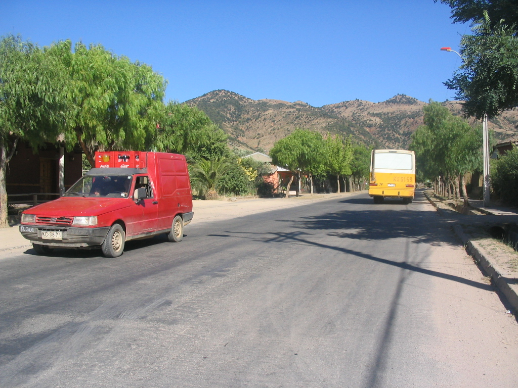 A photo I took yesterday, in Lolol, near Villa Esperanza.